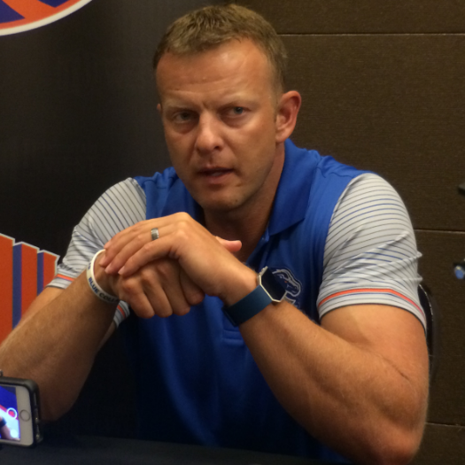 Bryan Harsin, head coach of the Boise State Broncos football team, at the 2016 Mountain West Conference Media Days in the The Cosmopolitan in Las Vegas.